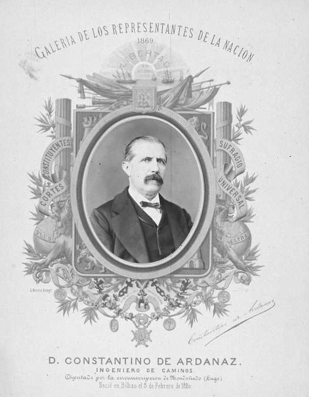 Spanish Politician Constantino de Ardanaz